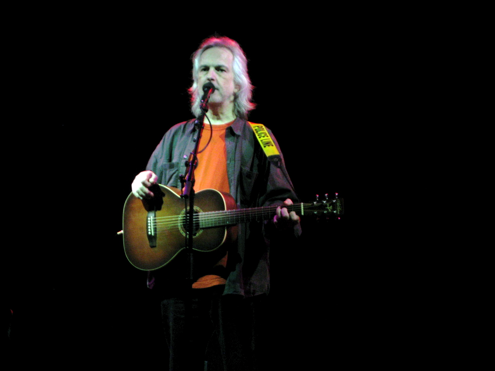 Gurf Morlix in Paradiso (Amsterdam), The Netherlands at 1 february 2009